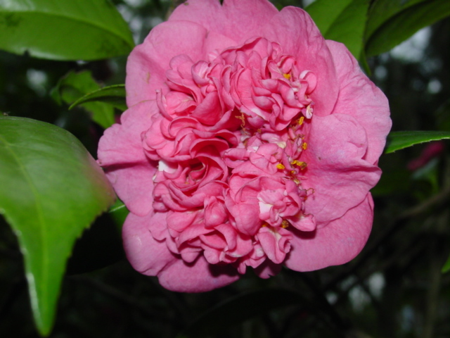 Japanese Camellia blossom, anemone form, taken in Rio de Janeiro Botanical Garden. Photo by M. A. P. Accardo Filho.